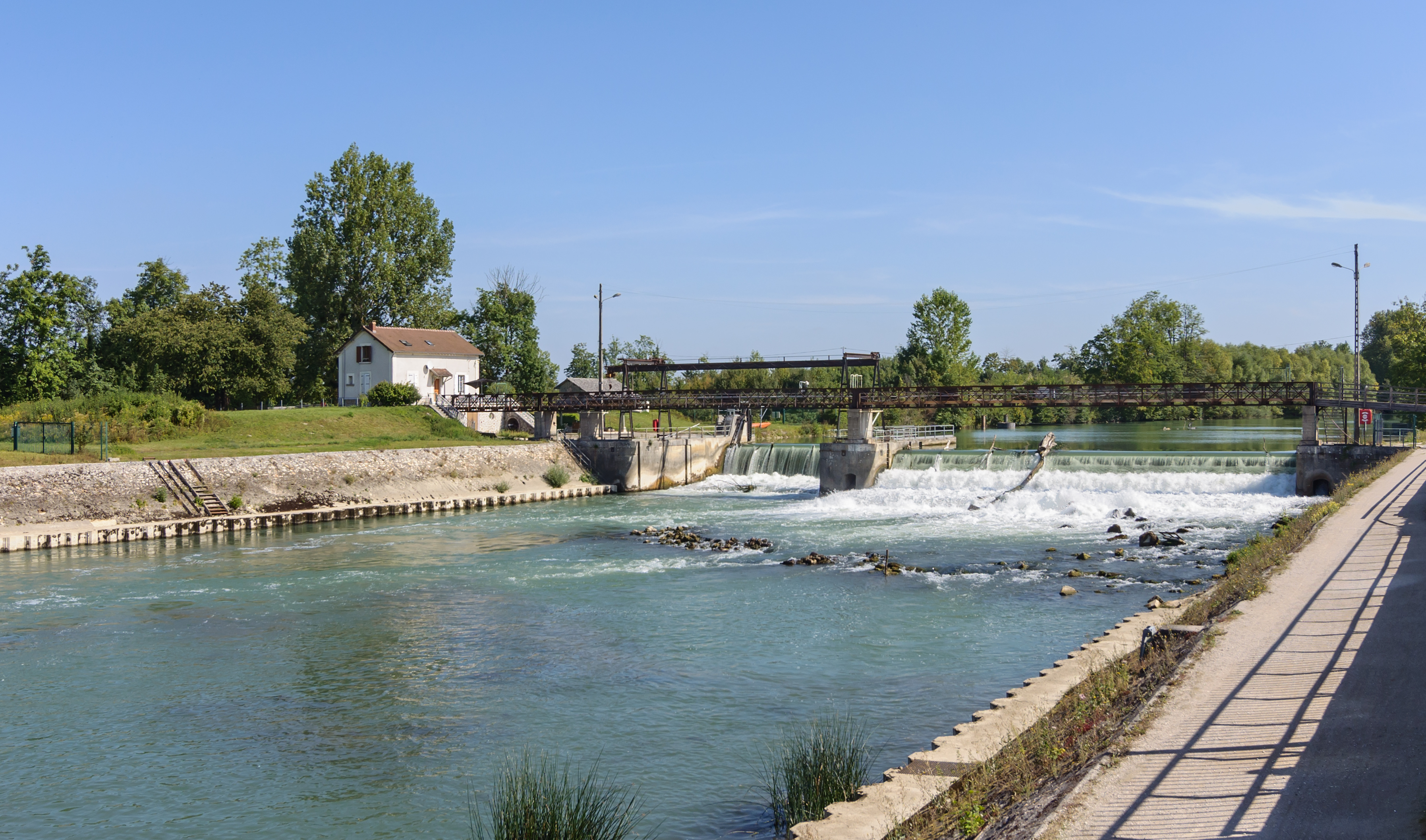 Dam of Noisiel on the Marne river, Seine-et-Marne, France.